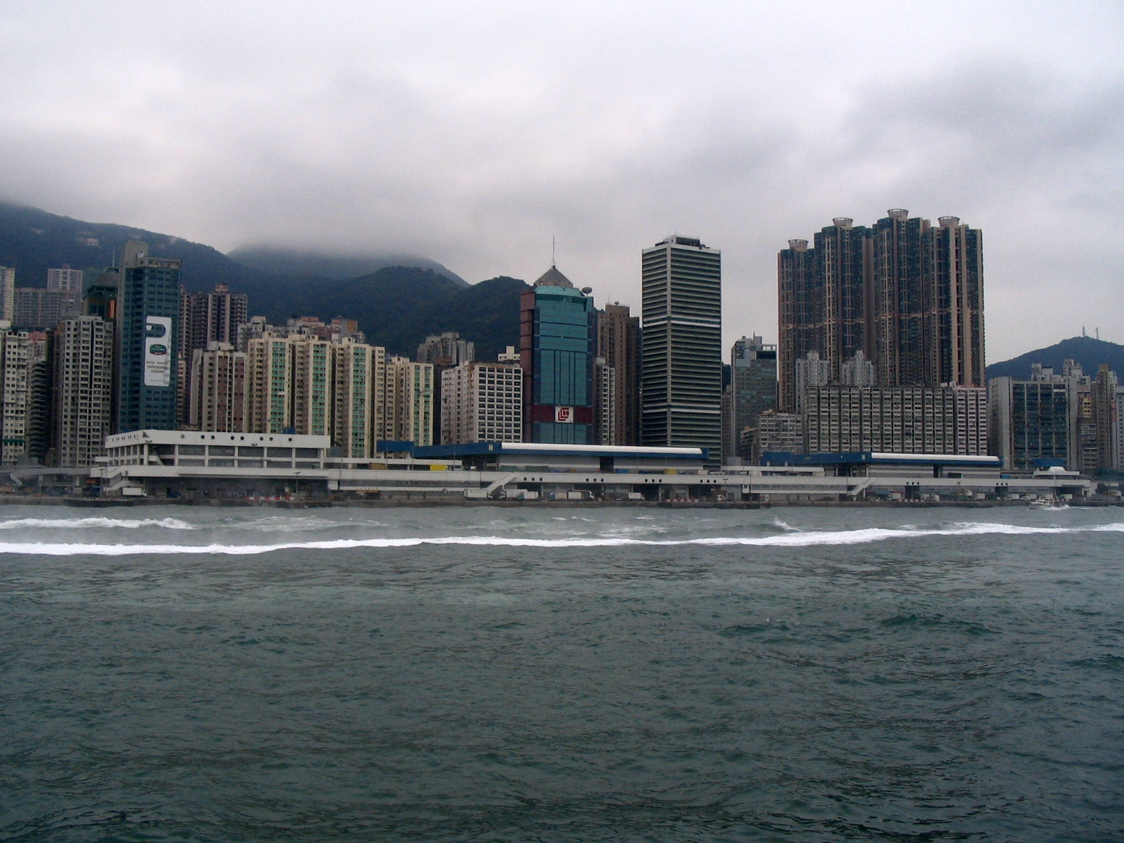 Photo of Western Wholesale Food Market